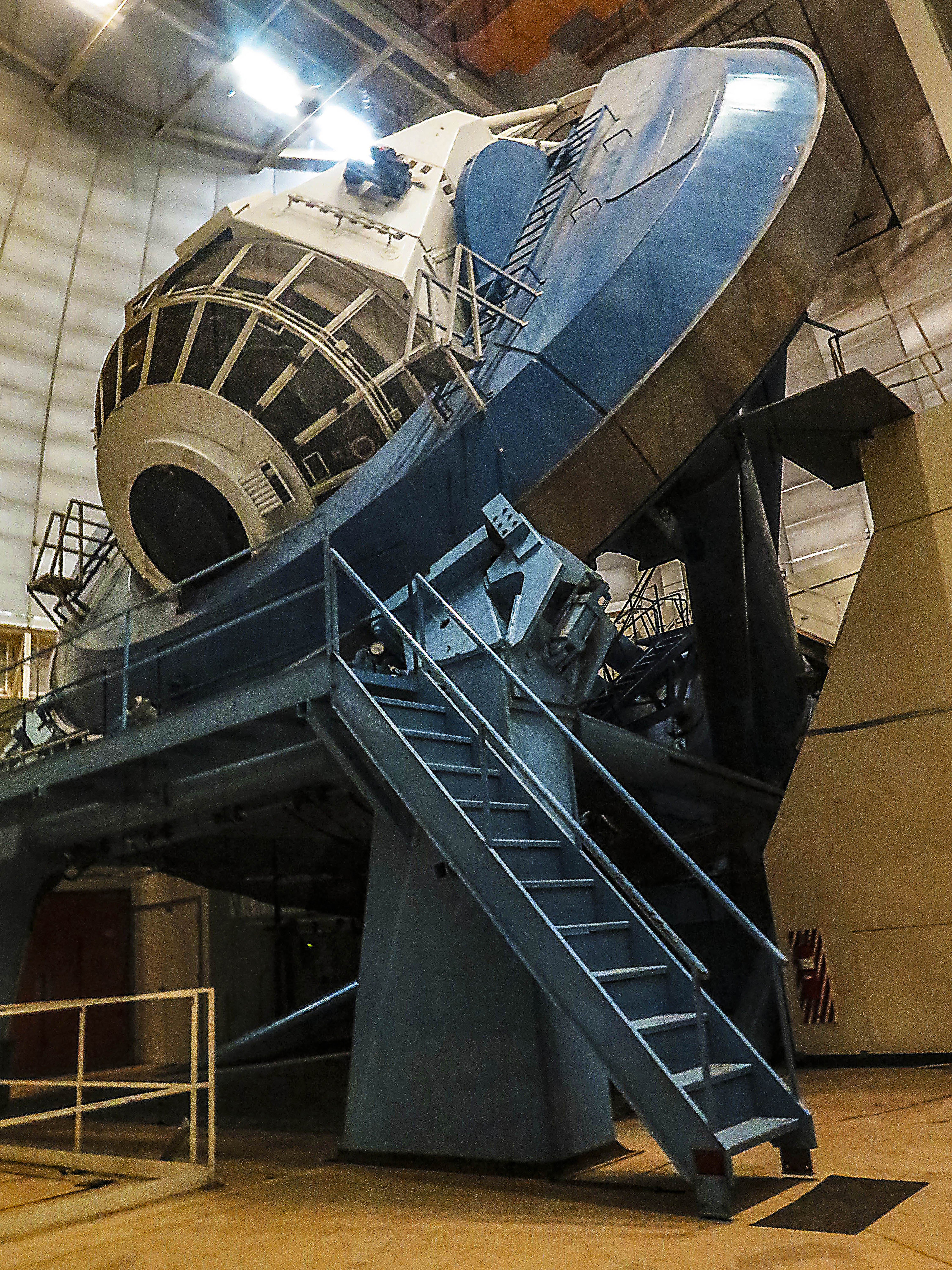 4m telescope at Kitt Peak